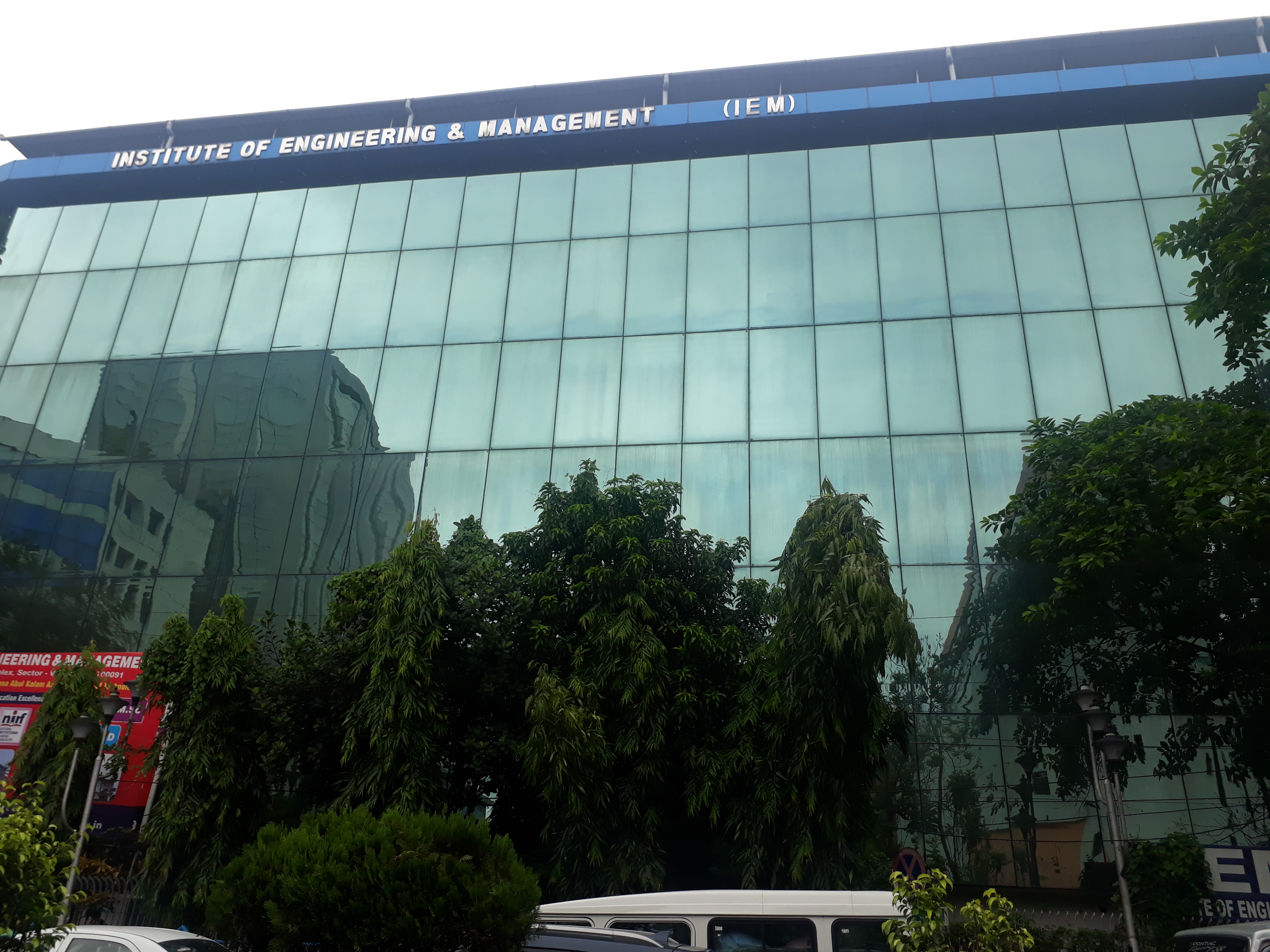 Institute of Engineering and Management (IEM) at Salt Lake, Kolkata, West Bengal